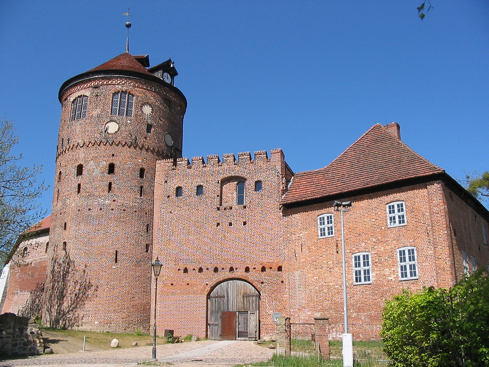 Alte Burg (Old castle) of Neustadt-Glewe, Mecklenburg-Vorpommern, Germany